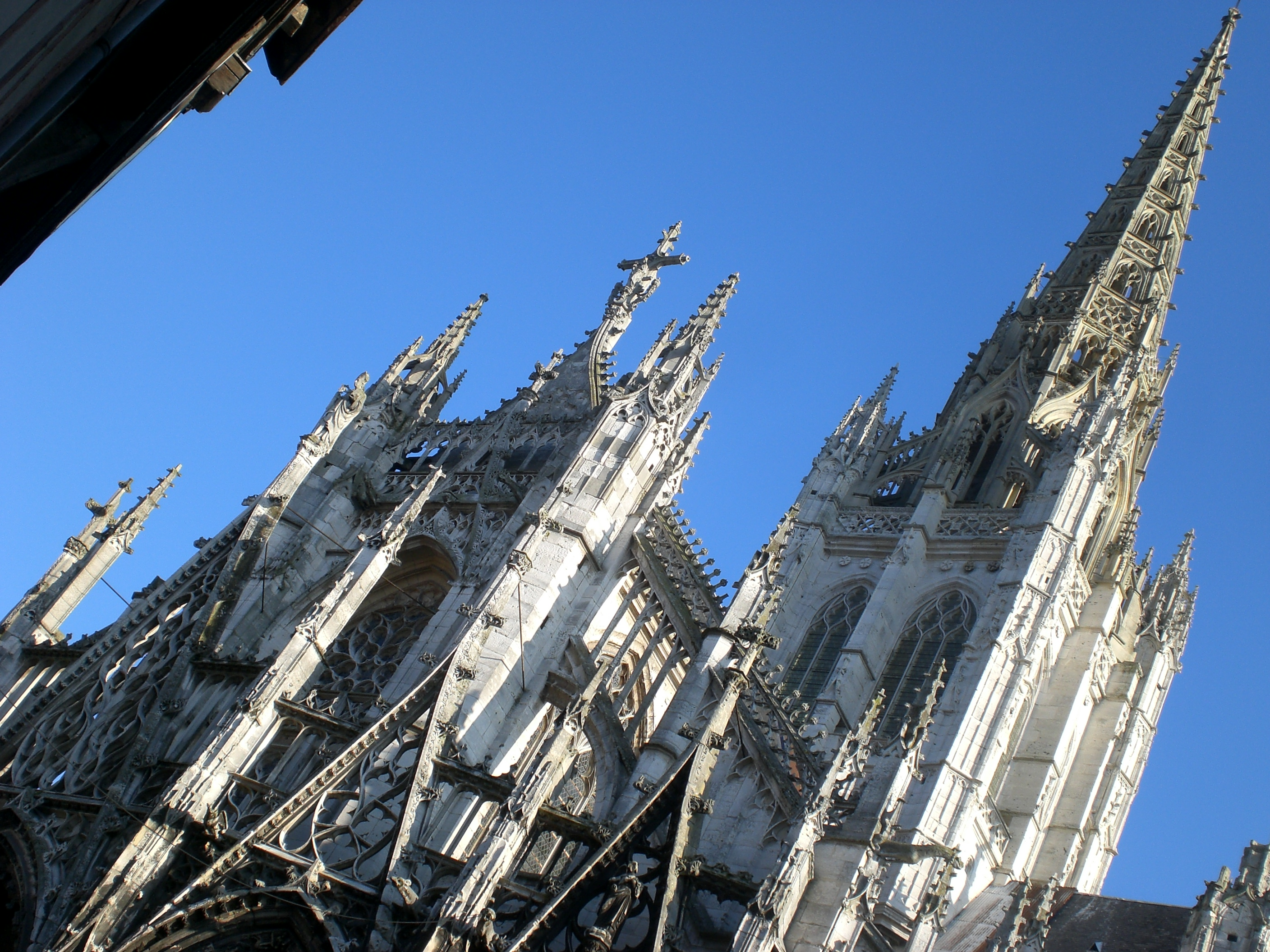 Rouen, Saint-Maclovius's Church, 1436-1520